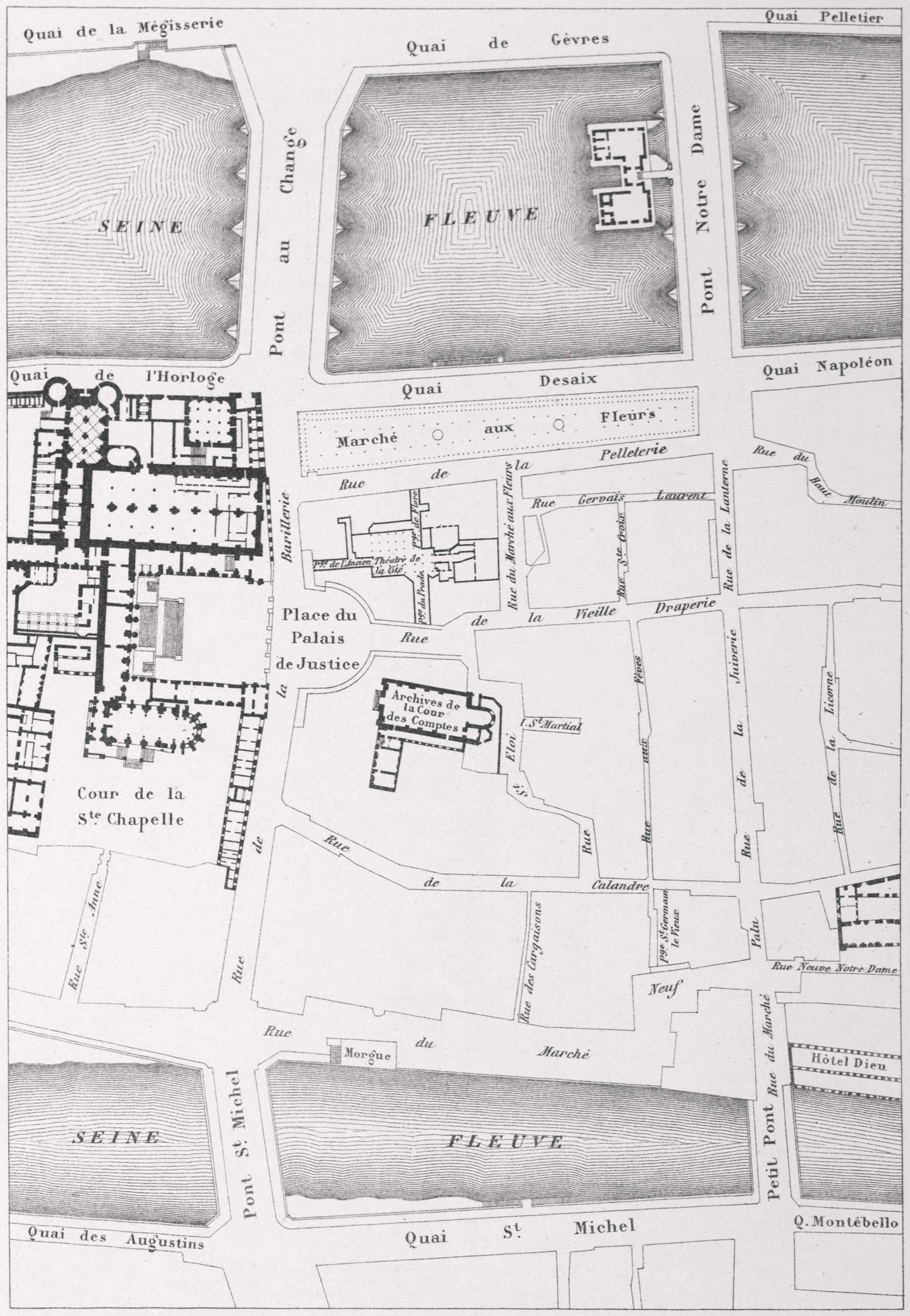 Plans of the area between the Pont Notre-Dame and the Pont au Change on the Ile de la Cité. On the left, a plan from 1754. On the right, a plan from 1838. A plan dated 1875 is overlaid on both sides.